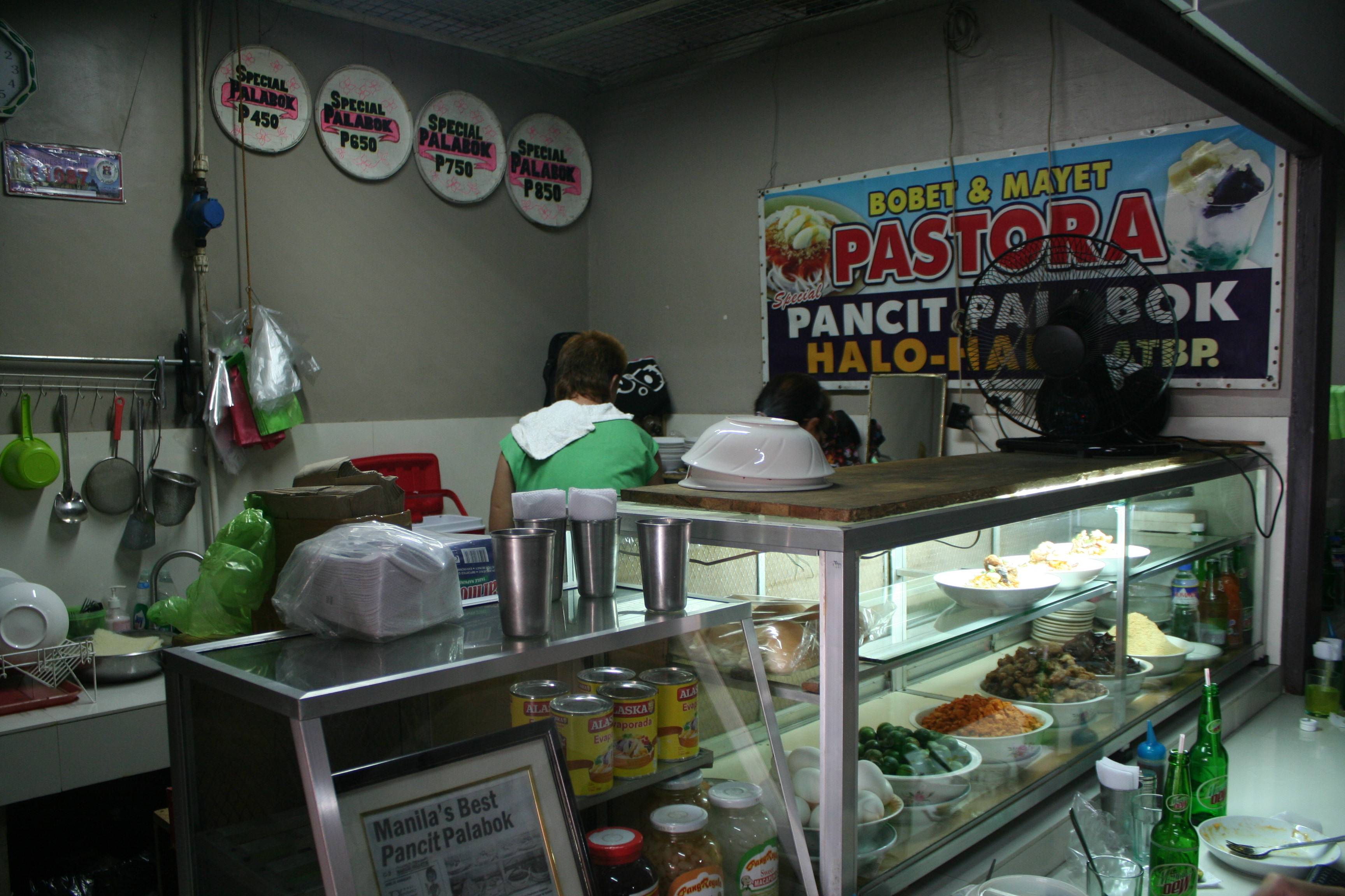 Pastora Special Palabok at Quinta Market in Quiapo, Manila.